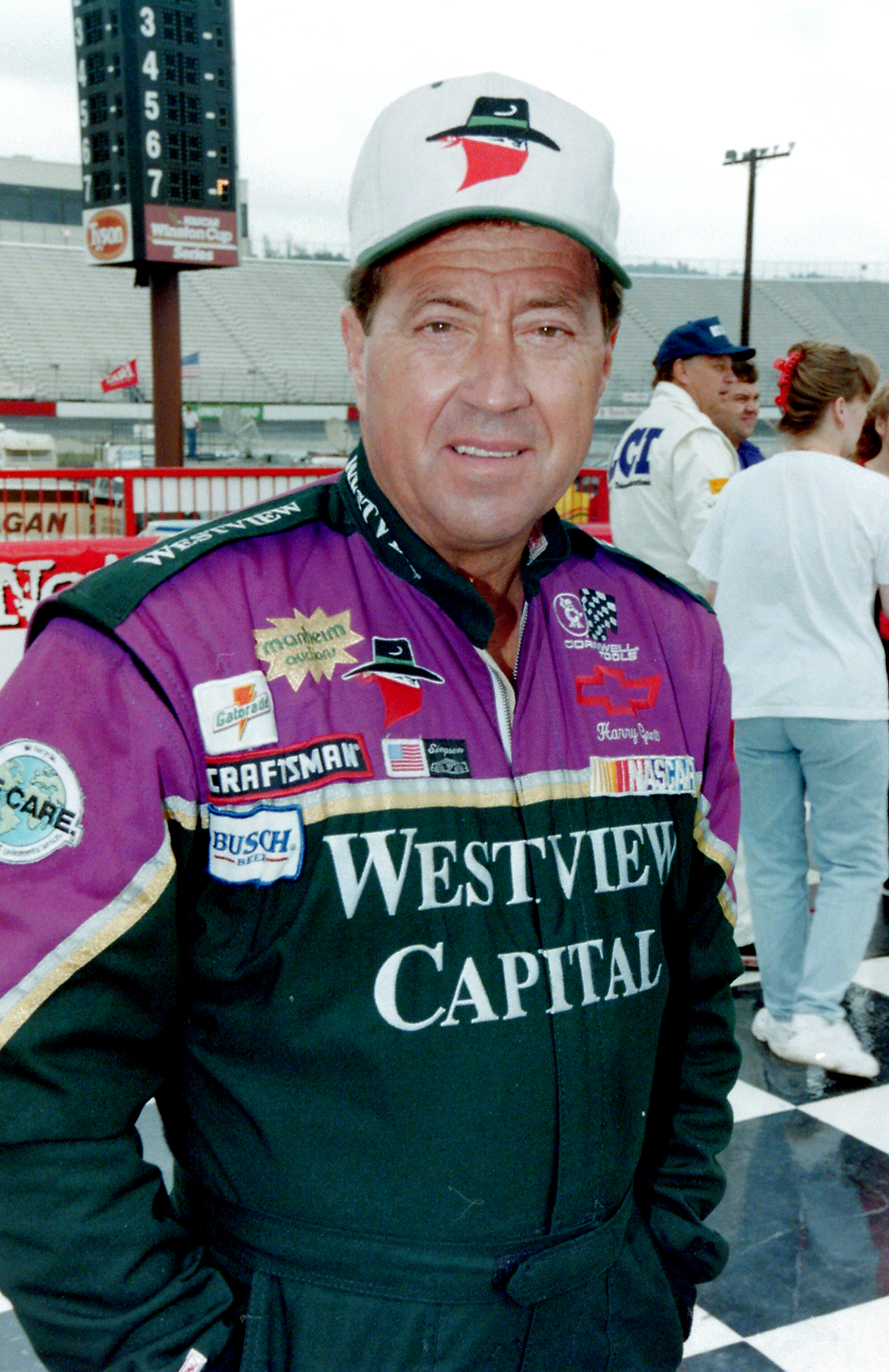 Harry Gant at North Wilkesboro Speedway for the Lowe's 250 Craftsman Truck Series race, September 1996. (Joe Ruttman in background.)